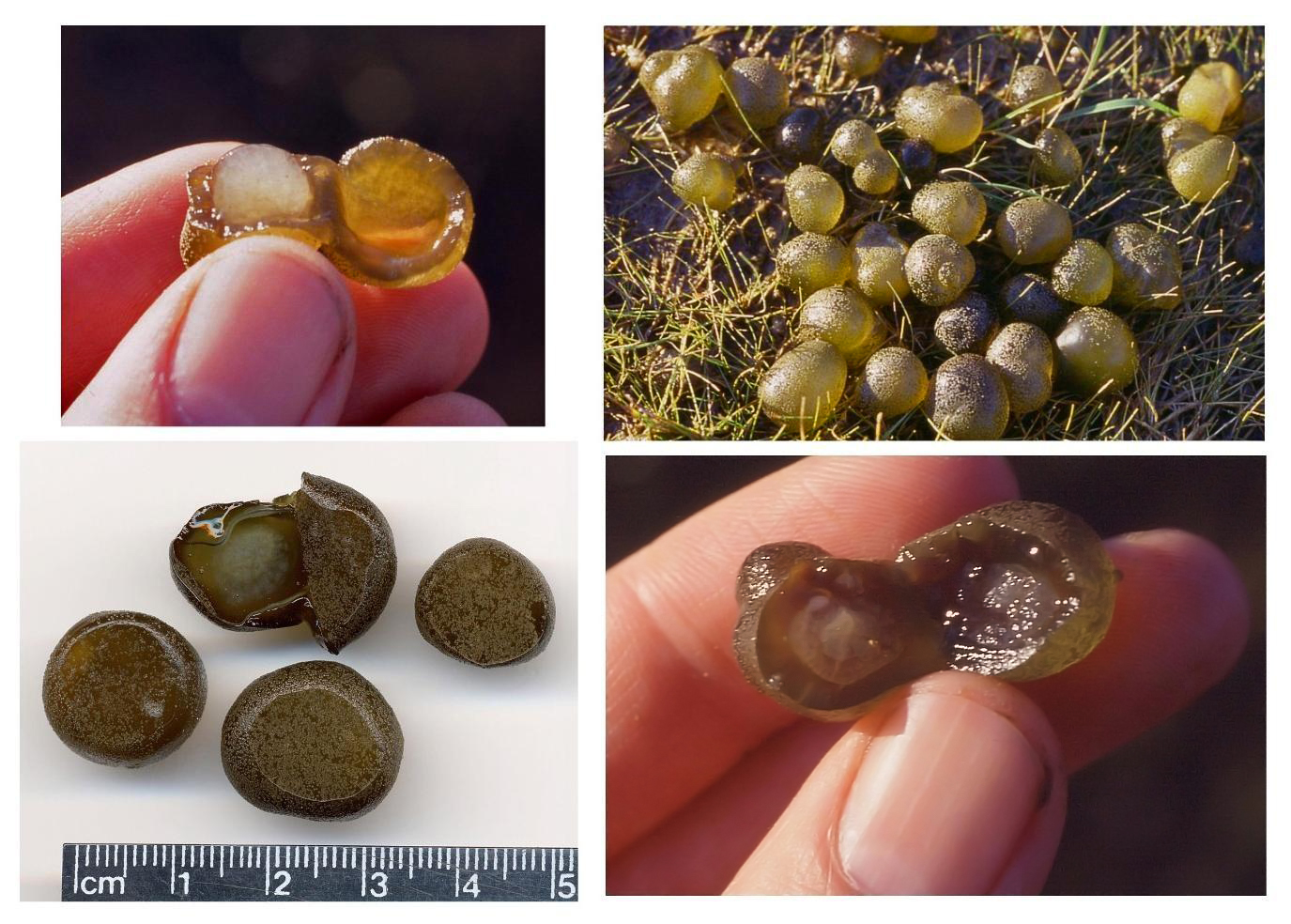 These "jelly balls" are colonies of the cyanobacteria species Nostoc pruniforme ("Mare's eggs"), living in freshwater ponds. (Determination was microscopically confirmed by Professor Dr Ludwig Kies, Hamburg.) Note: Many other single-(or few-)celled organisms also form gelatinous colonies in spherules. A reliable determination is only possible by microscope! The shown species is rather rare today and indicates clean water. Furthermore, my impression is that the trivial name "Mare's eggs" is not exclusively related to the concrete species Nostoc pruniforme, but also used for diverse different spherule algae (?).